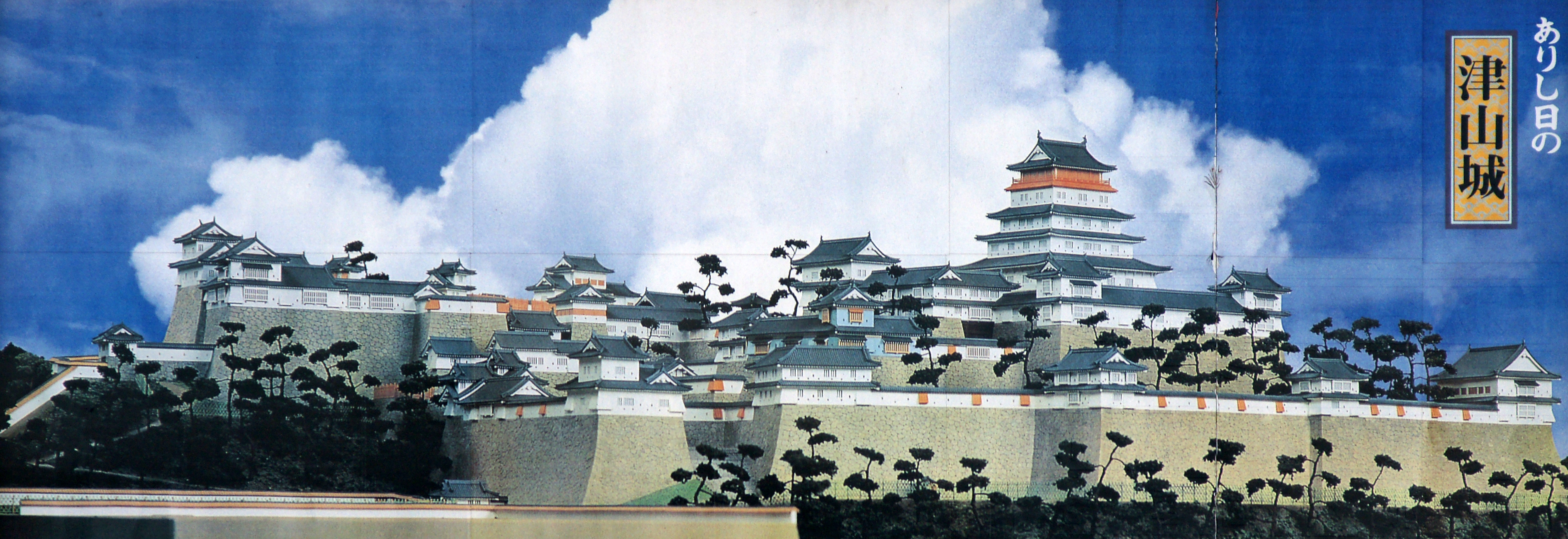 Tsuyama Station in Tsuyama, Okayama prefecture, Japan.